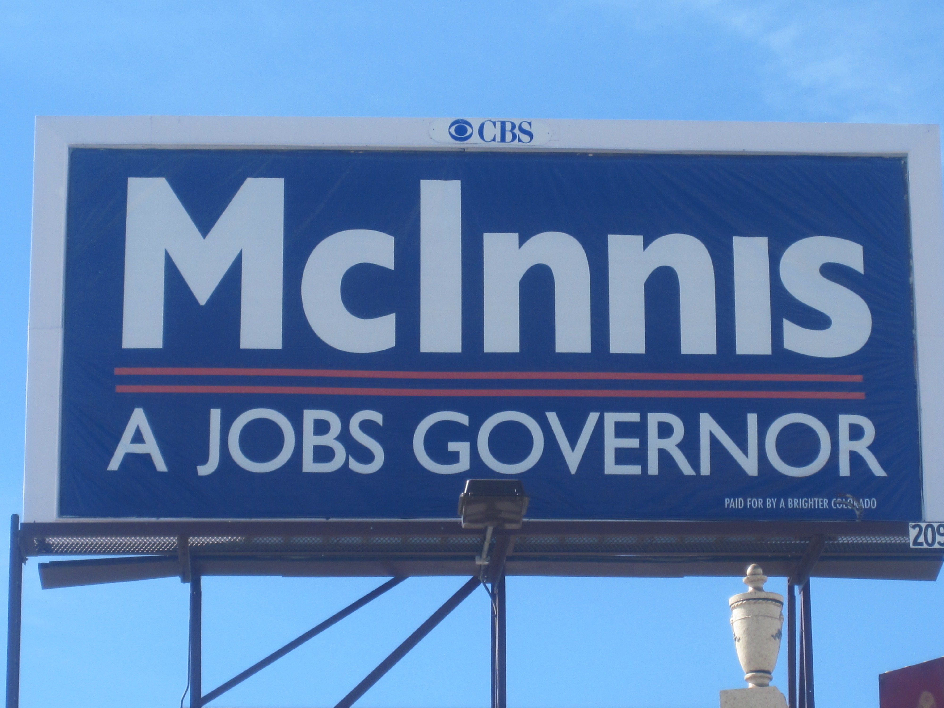 I took photo in Denver, CO, with Canon camera.